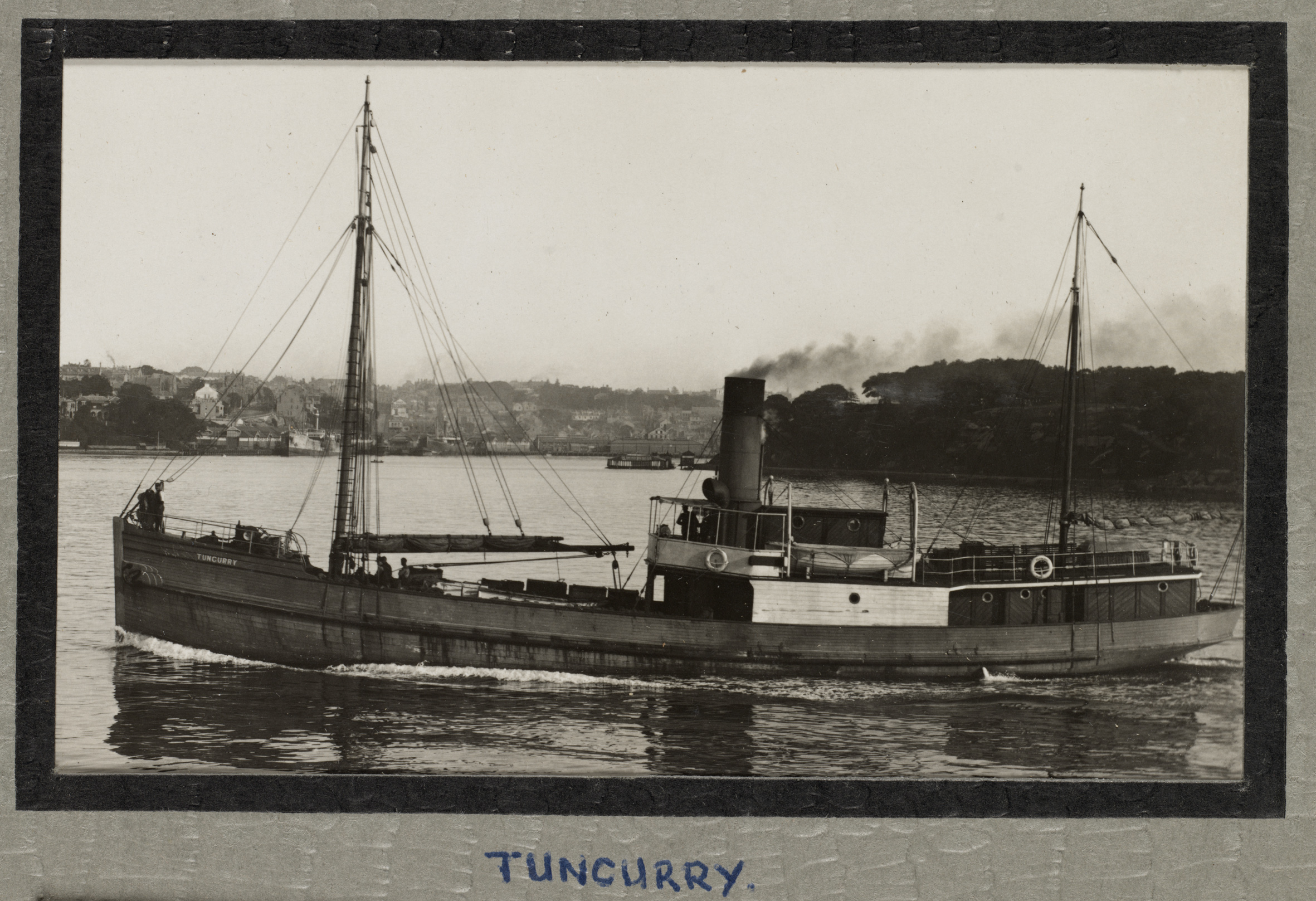 Tuncurry (1903) or Tuncurry (1909) built by John Wright @ Cape Hawke from the Nichols Collection of photographs of ships, ca 1900-1931 Vol33 p37 Tuncurry. Great Lakes Historical and Maritime Museum suggest this is the first Tuncurry of 1903